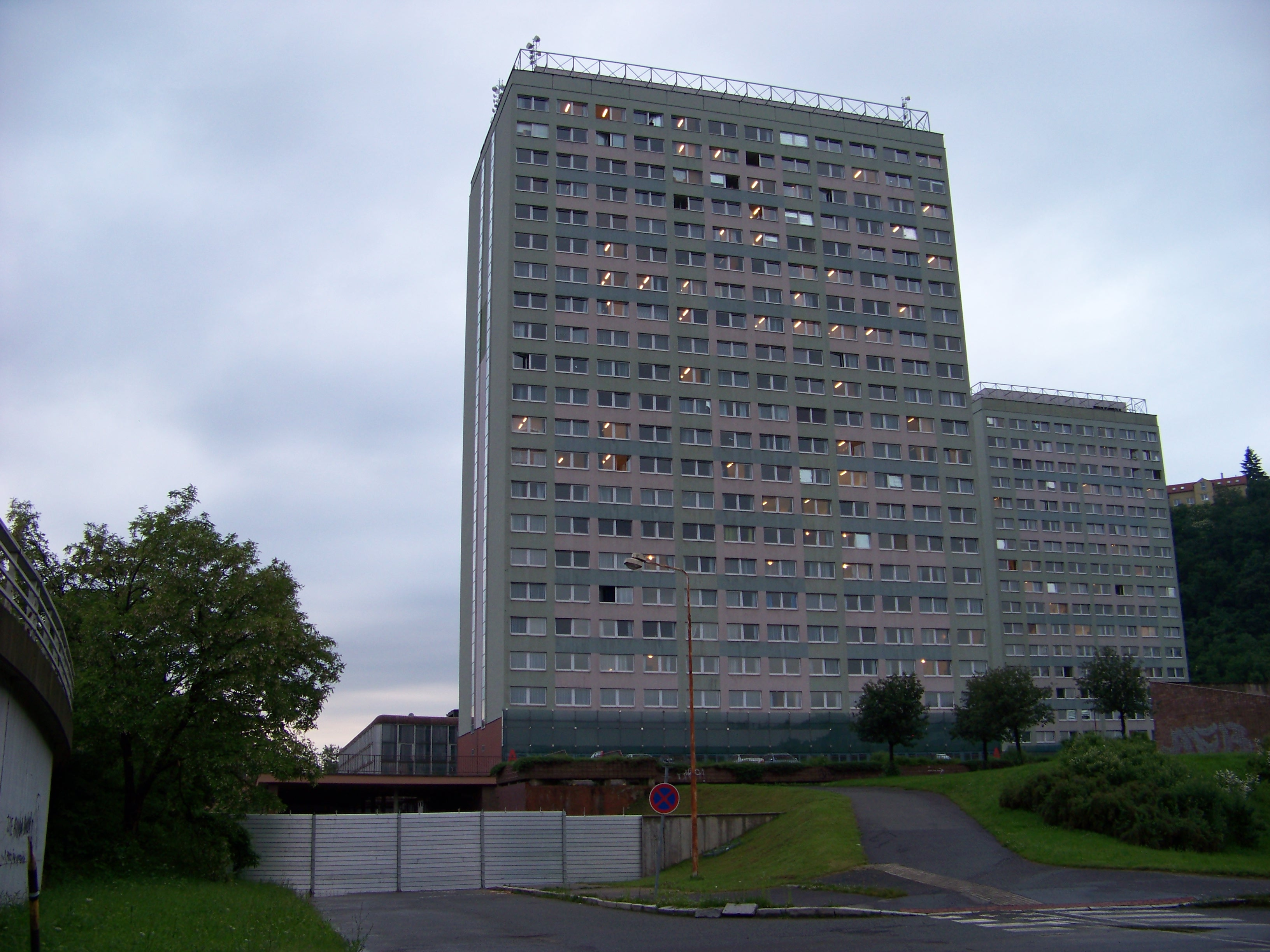 Prague-Libeň. Pátkova street, a floodwall and a student dormitory.